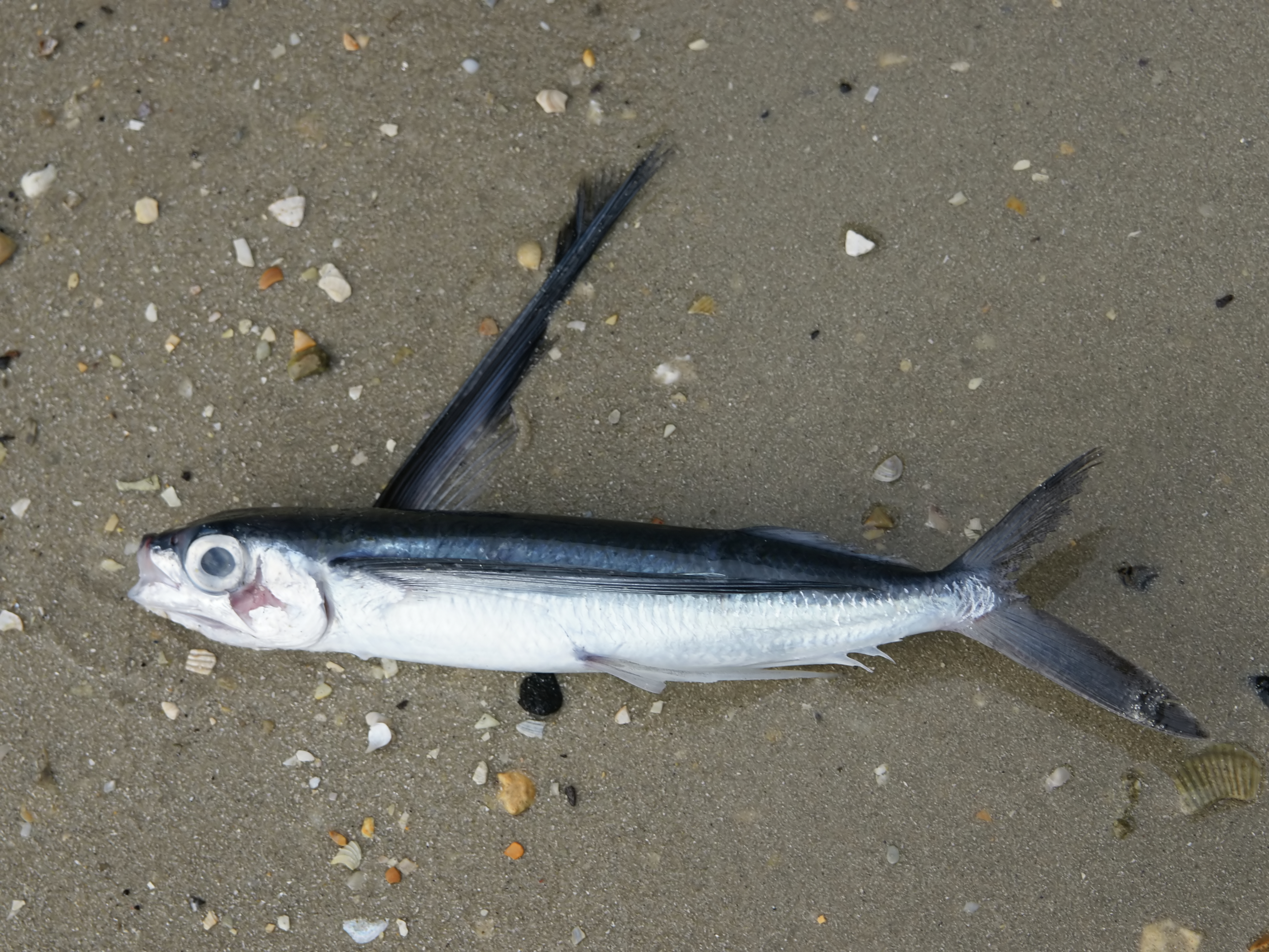 Beached Atlantic flyingfish at St. Lucie County Marine Center in Fort Pierce, St. Lucie County, Florida, U.S.A.